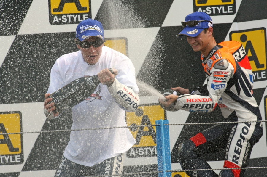 Nicky Hayden and Dani Pedrosa, spraying the champagne and celebrating on the podium after finishing in first and third position at the 2006 Dutch TT in Assen.